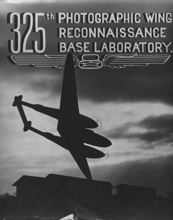 Cover page of the 325th's descriptive unit brochure.